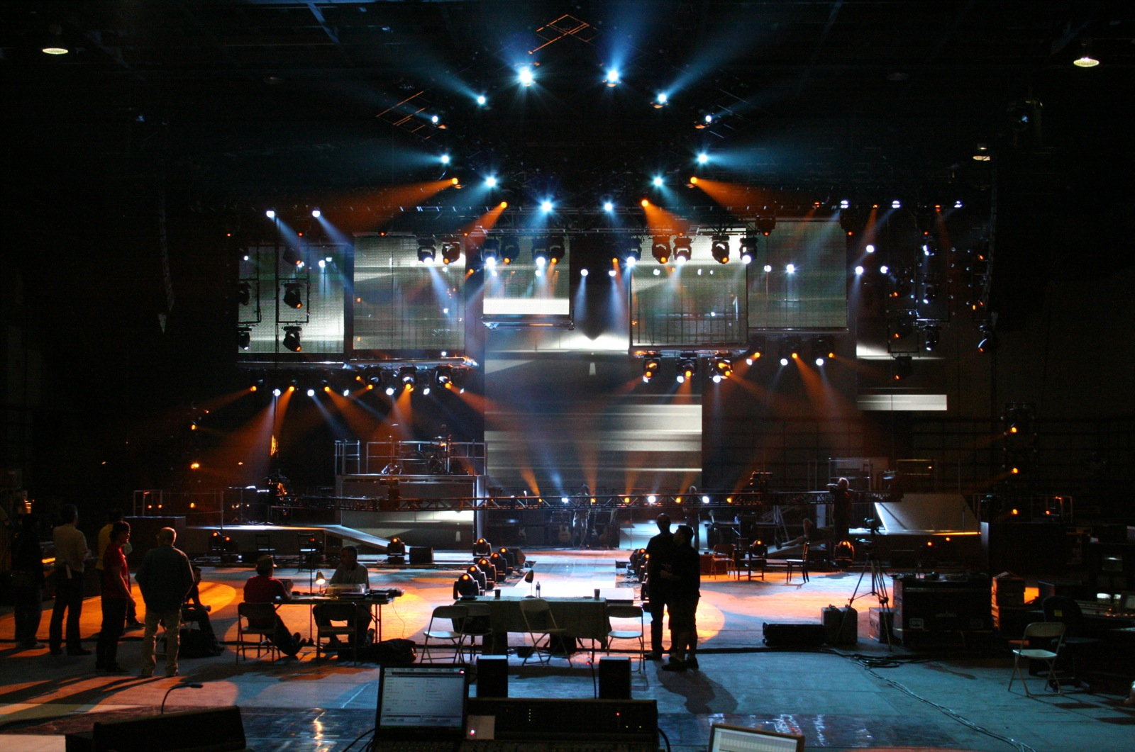 A concert set.